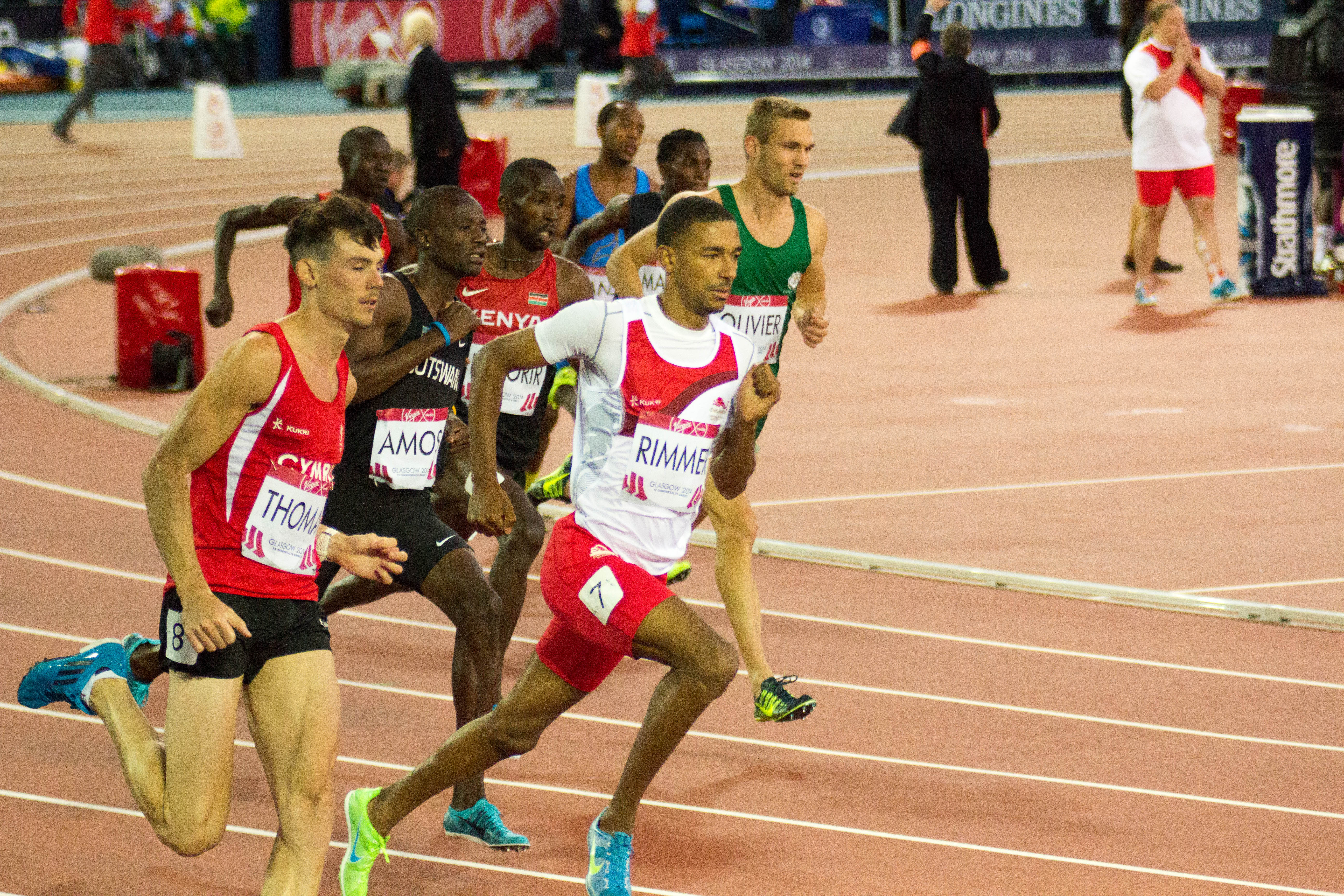 Commonwealth Games 2014 - Athletics Day 4 2014 Commonwealth Games Day 4: Athletics